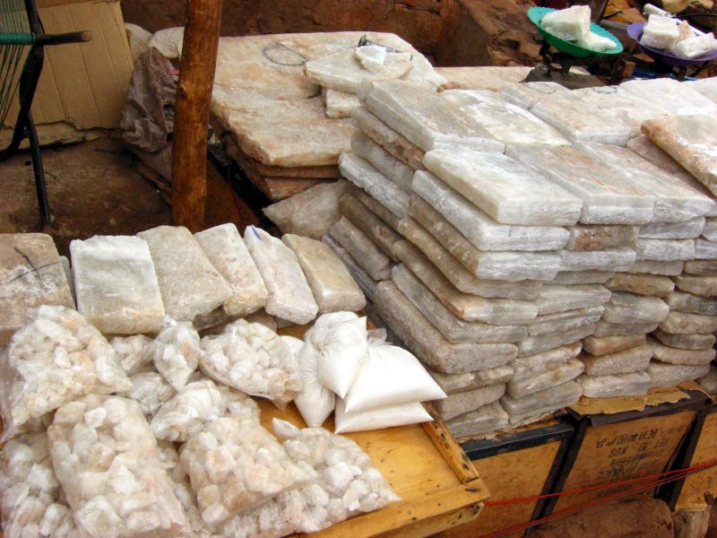 "This is in the market in Mopti. It travels by camel from the desert into Timbuktu, then by boat down to Mopti and from there into Bamako and the rest of Mali." This is salt from the ancient Azalai trade from the Saharan mines and evaporation pools, through Timbuctu, to much of west africa. The Salt is for medicinal purposes, home remedies, industrial usage, and for farm animals (depending on the type).